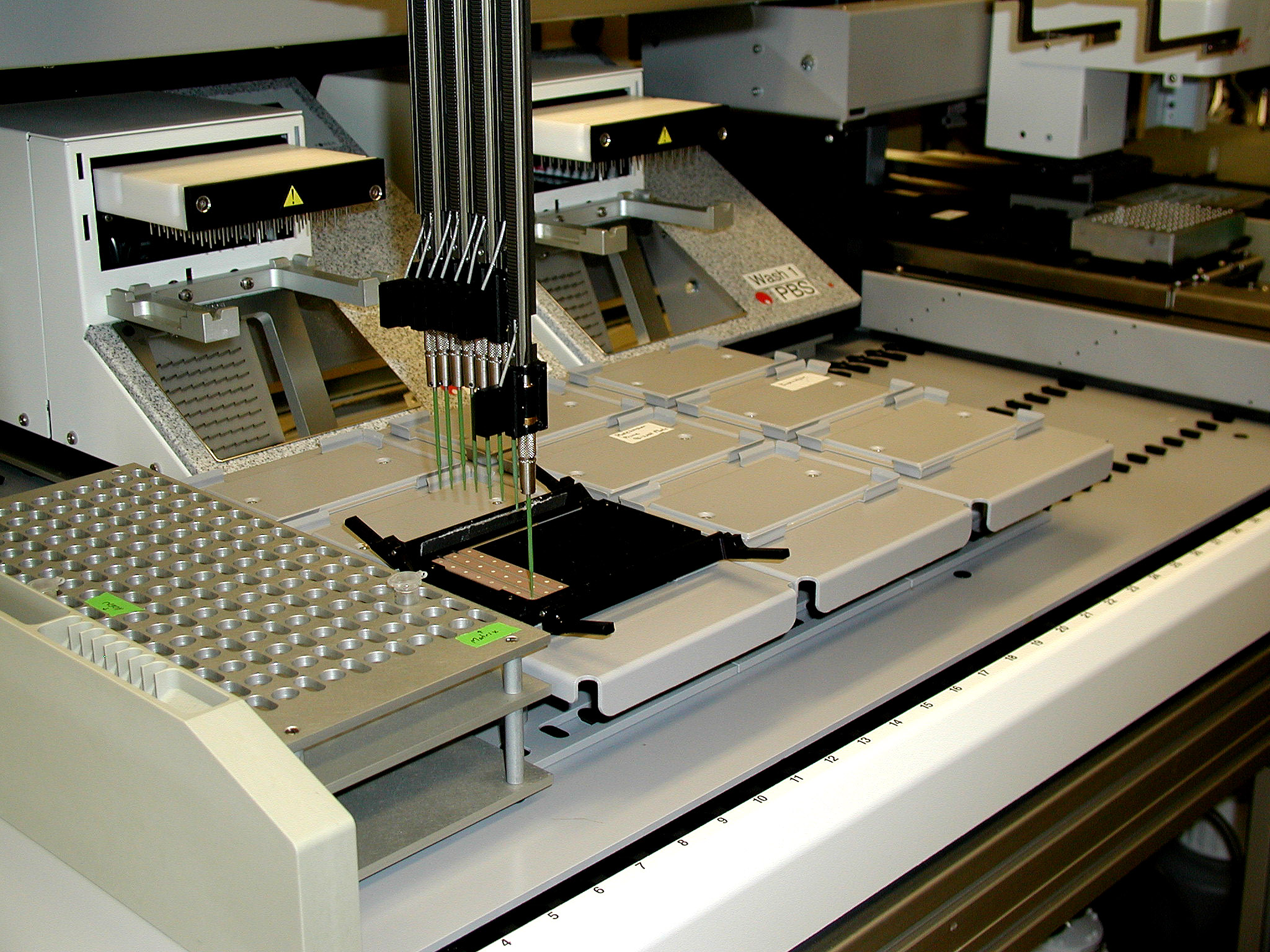 Title Protein Pattern Analyzer Description A TECAN Genesis 2000 robot prepares Ciphergen SELDI-TOF protein chips for proteomic pattern analysis. Topics/Categories Science and Technology -- Laboratory Techniques/Equipment Science and Technology -- Medical Devices Type Color, Photo Source National Cancer Institute